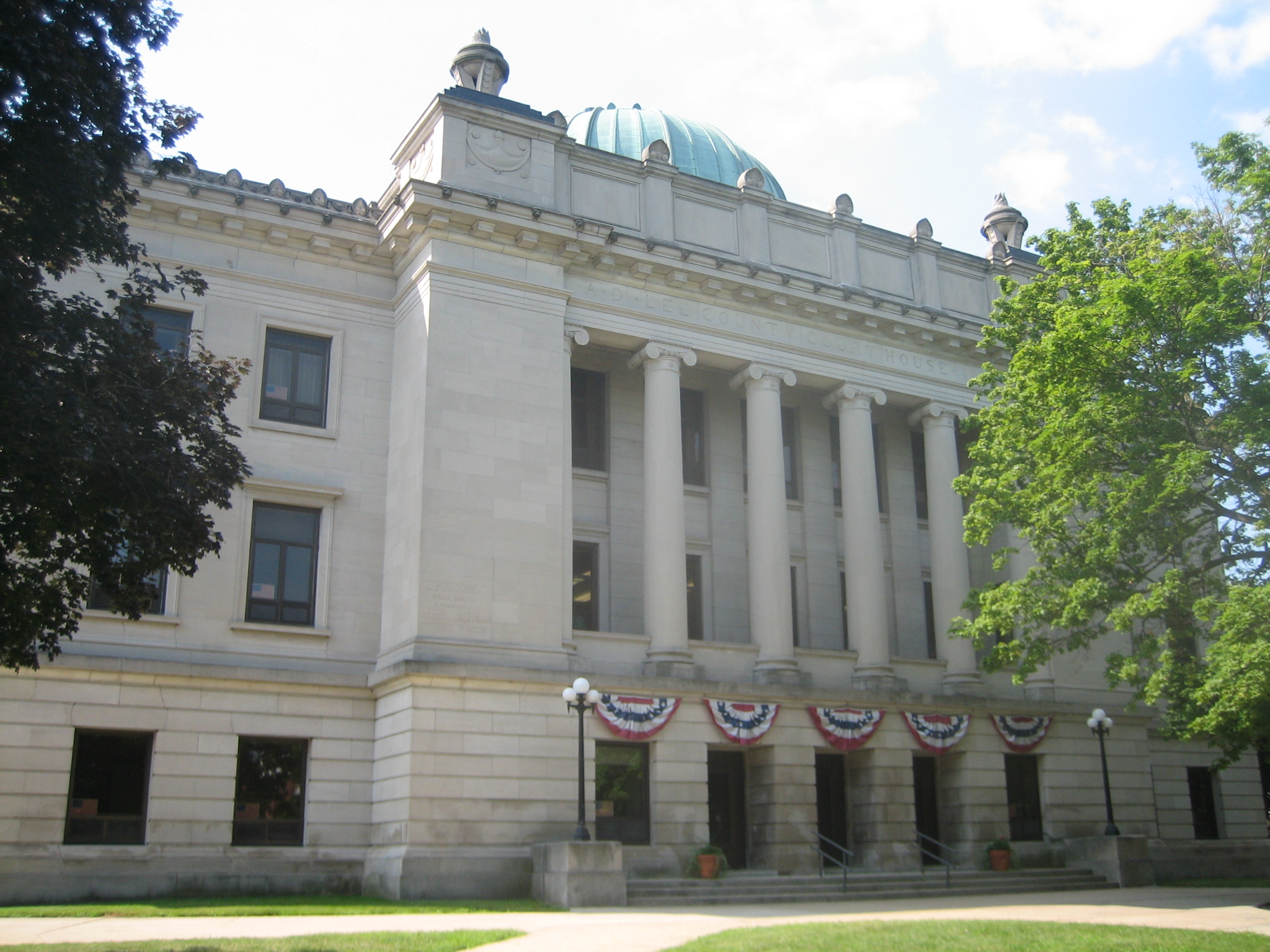 Old Lee County Courthouse, Dixon, Illinois, USA